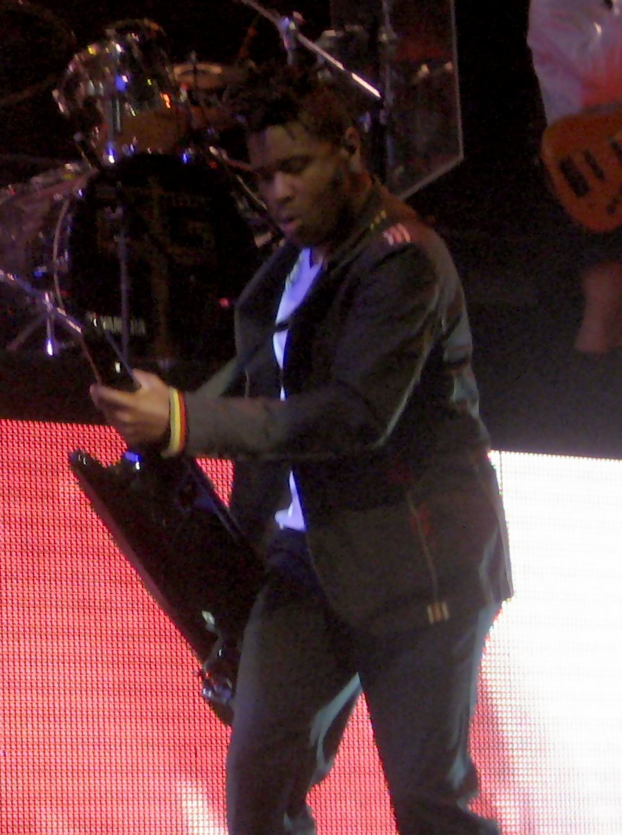 Gabrial McNair in a performance of "Yummy" at the Tweeter Center for the Performing Arts in Mansfield, Massachusetts, United Statesgwen